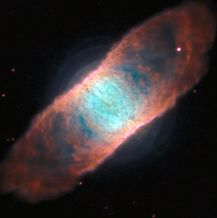 The coupling of the AOF with MUSE gives access to both greater sharpness and a wide dynamic range when observing celestial objects like planetary nebulae. These new observations of IC 4406 revealed shells that have never been seen before, along with the already familiar dark dust structures in the nebula that gave it the popular name the Retina Nebula. This image shows a small fraction of the total data collected by the MUSE using the AOF system and demonstrates the increased abilities of the new AOF equipped MUSE instrument.